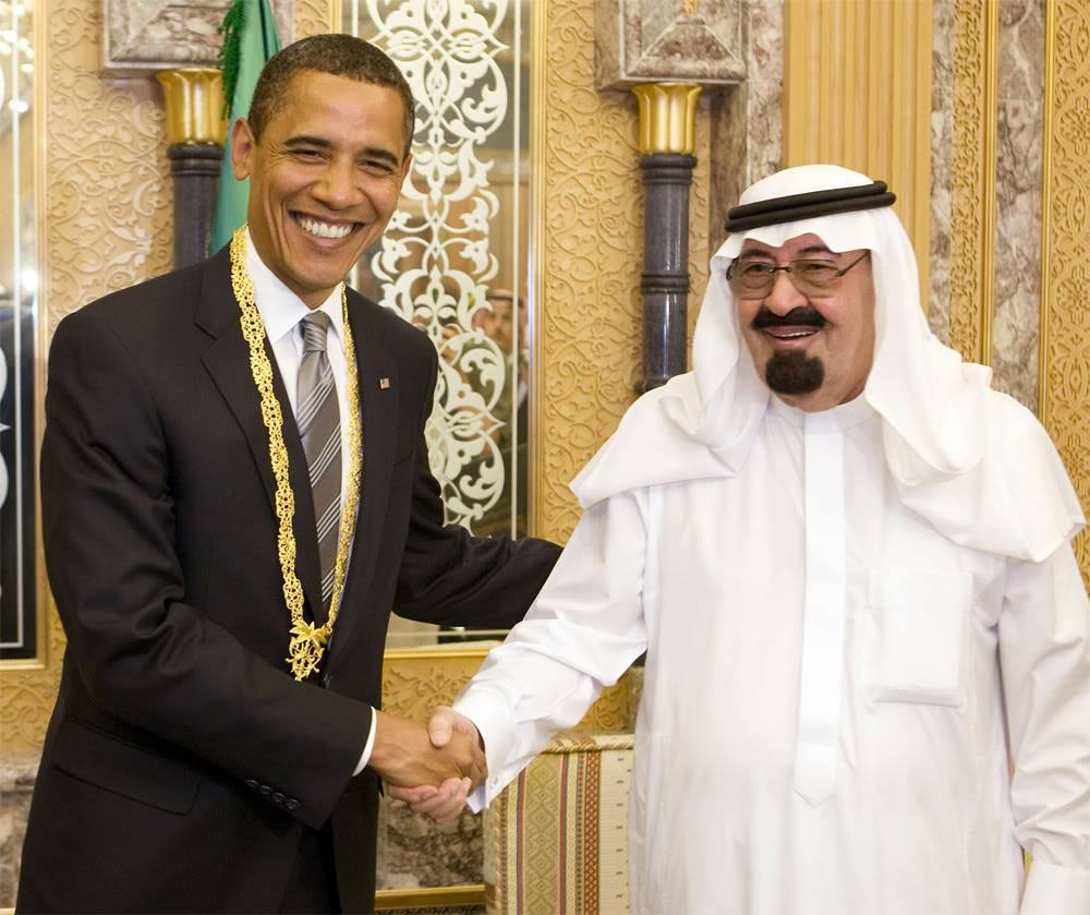 Obama meets King Abdullah of Saudi Arabia, July 2014